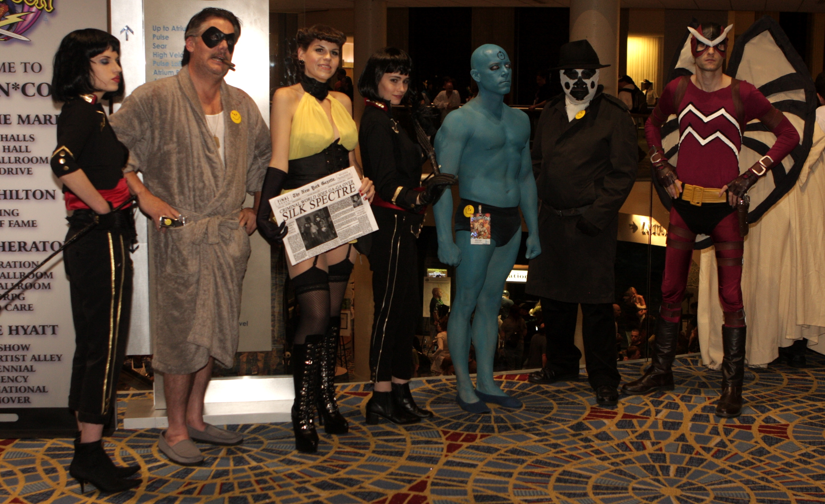 Watchmen characters at Dragon-Con on September 5, 2009.